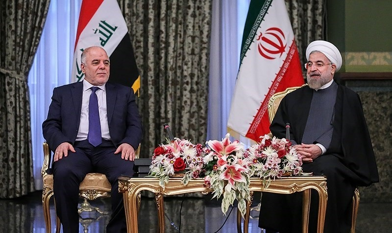 Iranian President meets Iraqi Prime Minister, Haider al-Abadi in Saadabad Palace